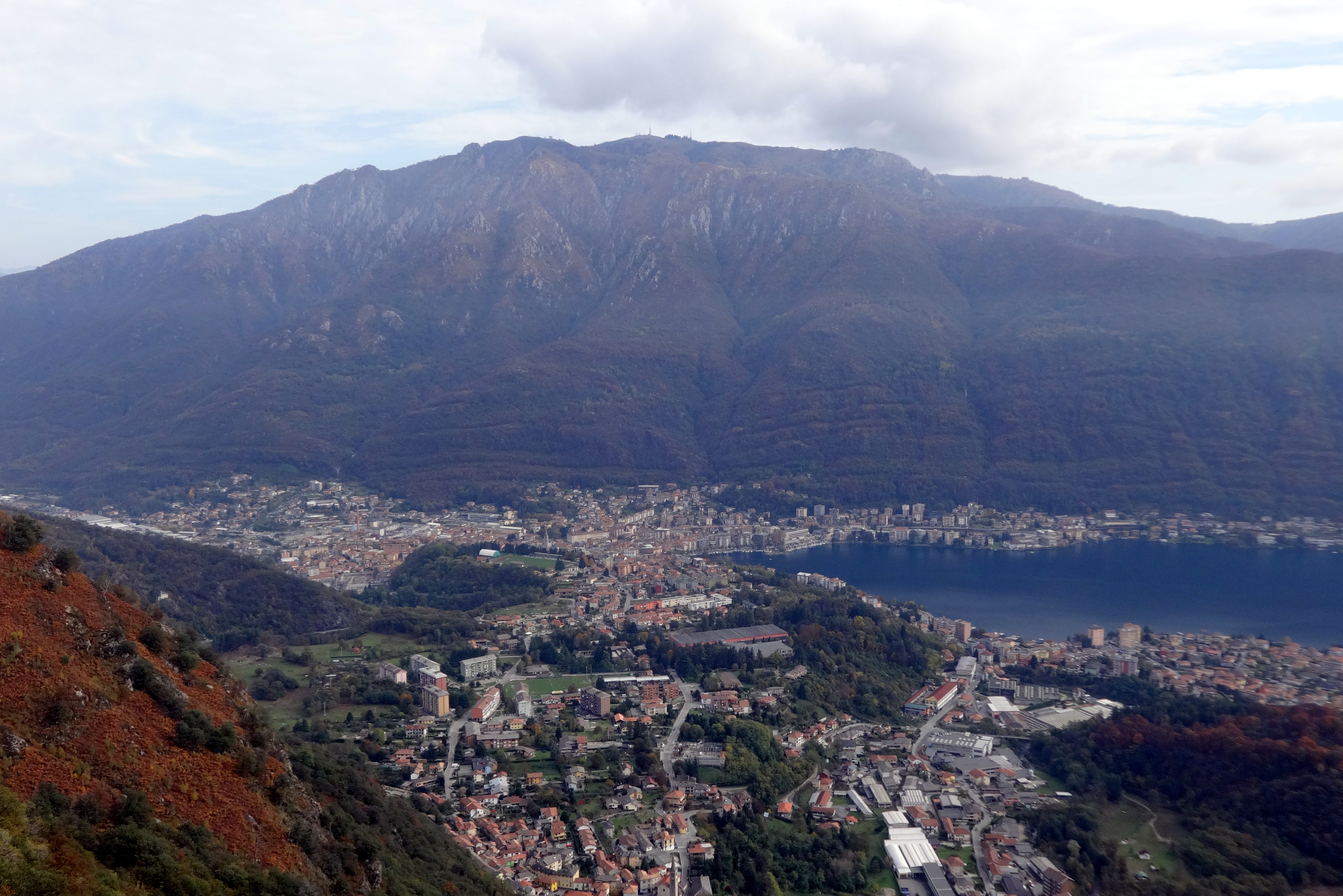 Omegna, Mottarone mountain and Lake Orta as seen from Quarna Sopra